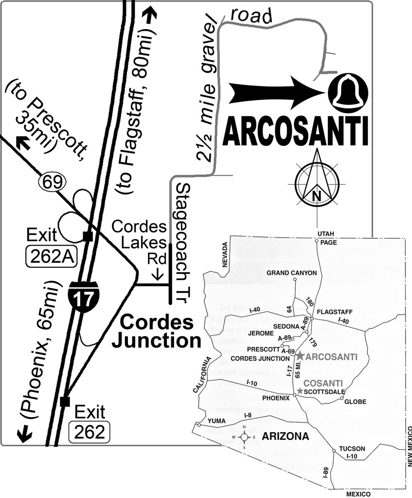 Created by Chris Ohlinger, General Manager of Cosanti Originals, Inc.